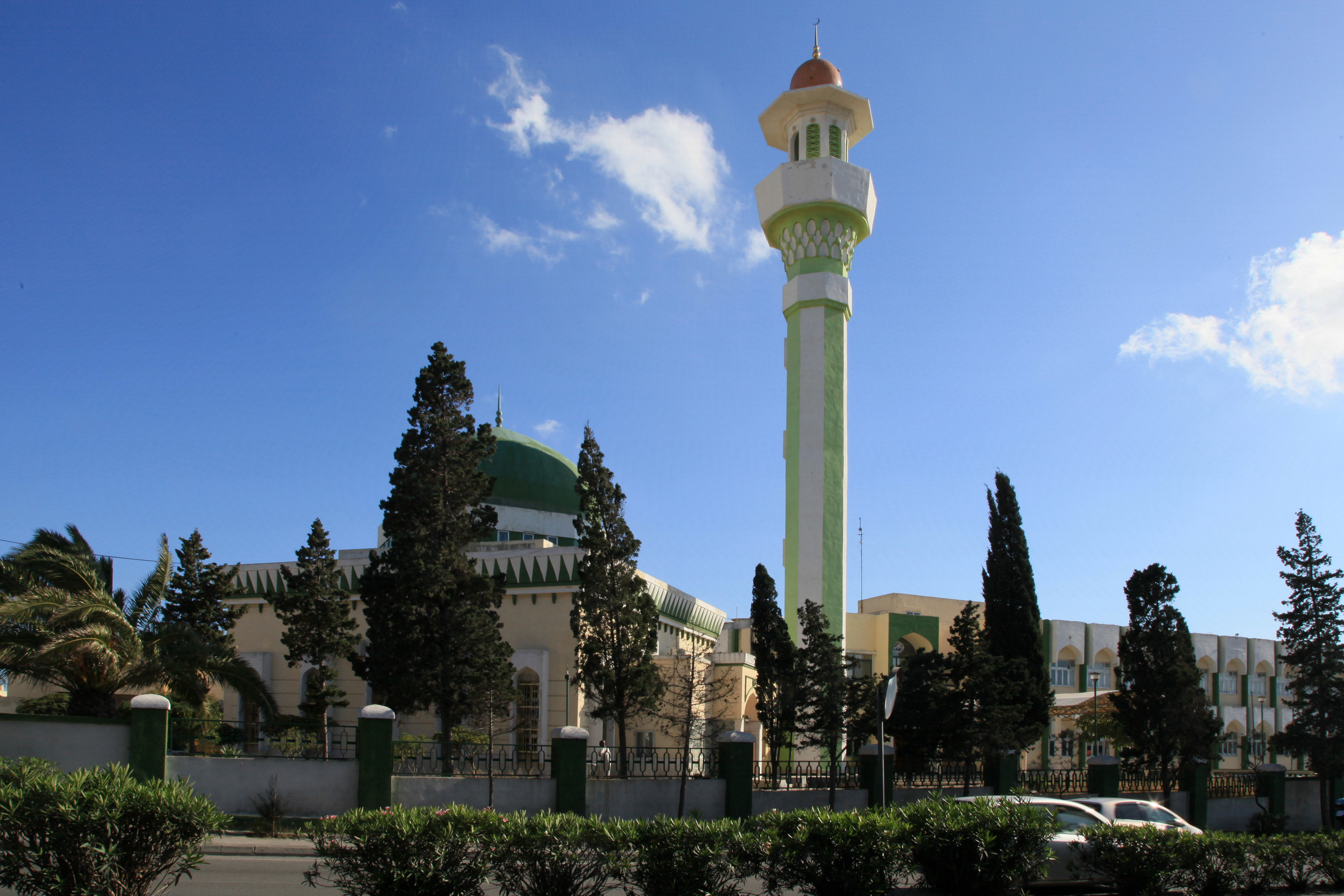 Mariam Al-Batool Mosque at Triq Kordin in Paola, Malta